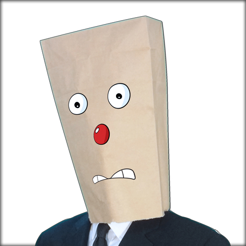 'Otário Anonymous', the main personage from 'Canal do Otário'